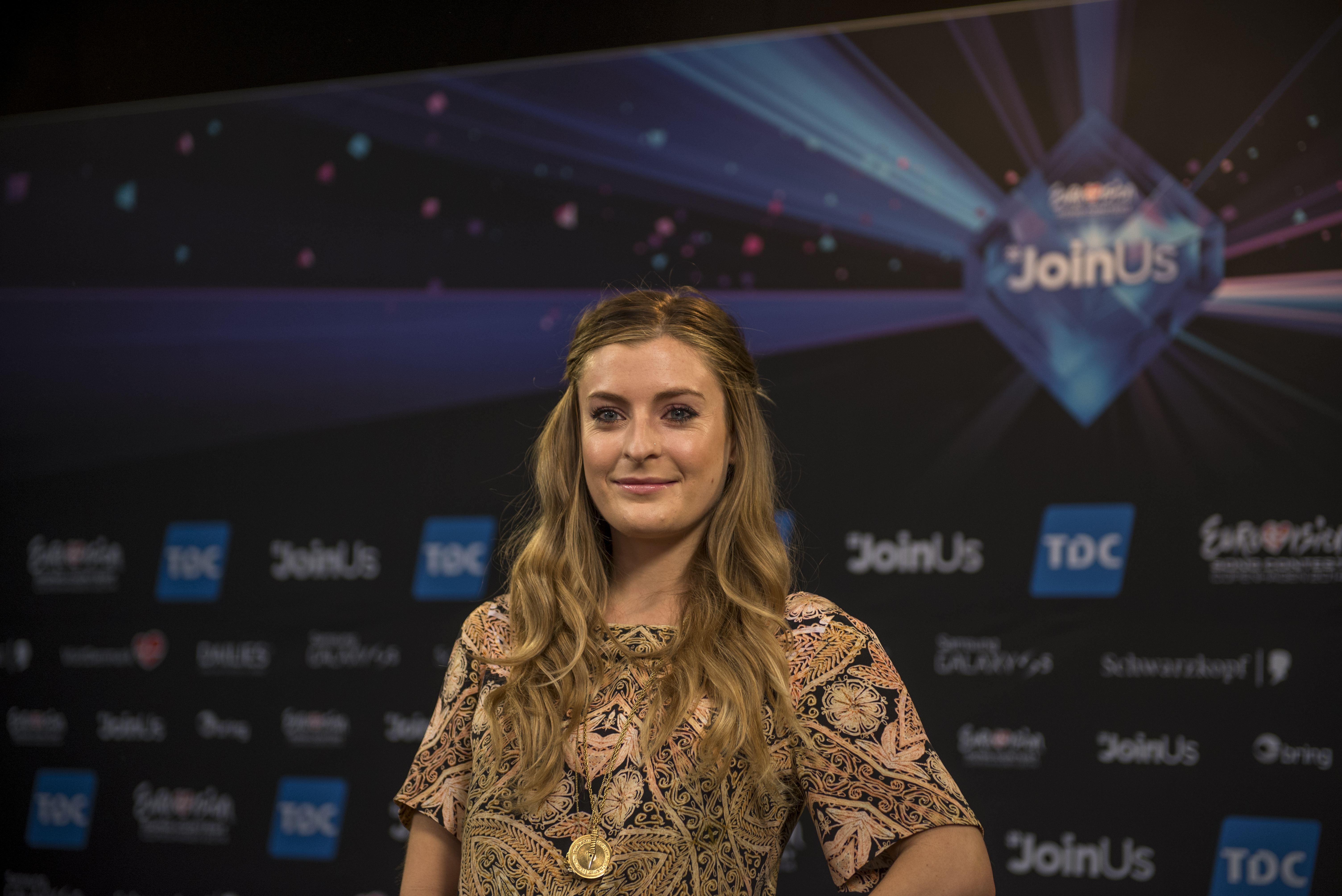 Molly Smitten-Downes at a press conference during the Eurovision Song Contest 2014 Copenhagen. (Help translate this text)